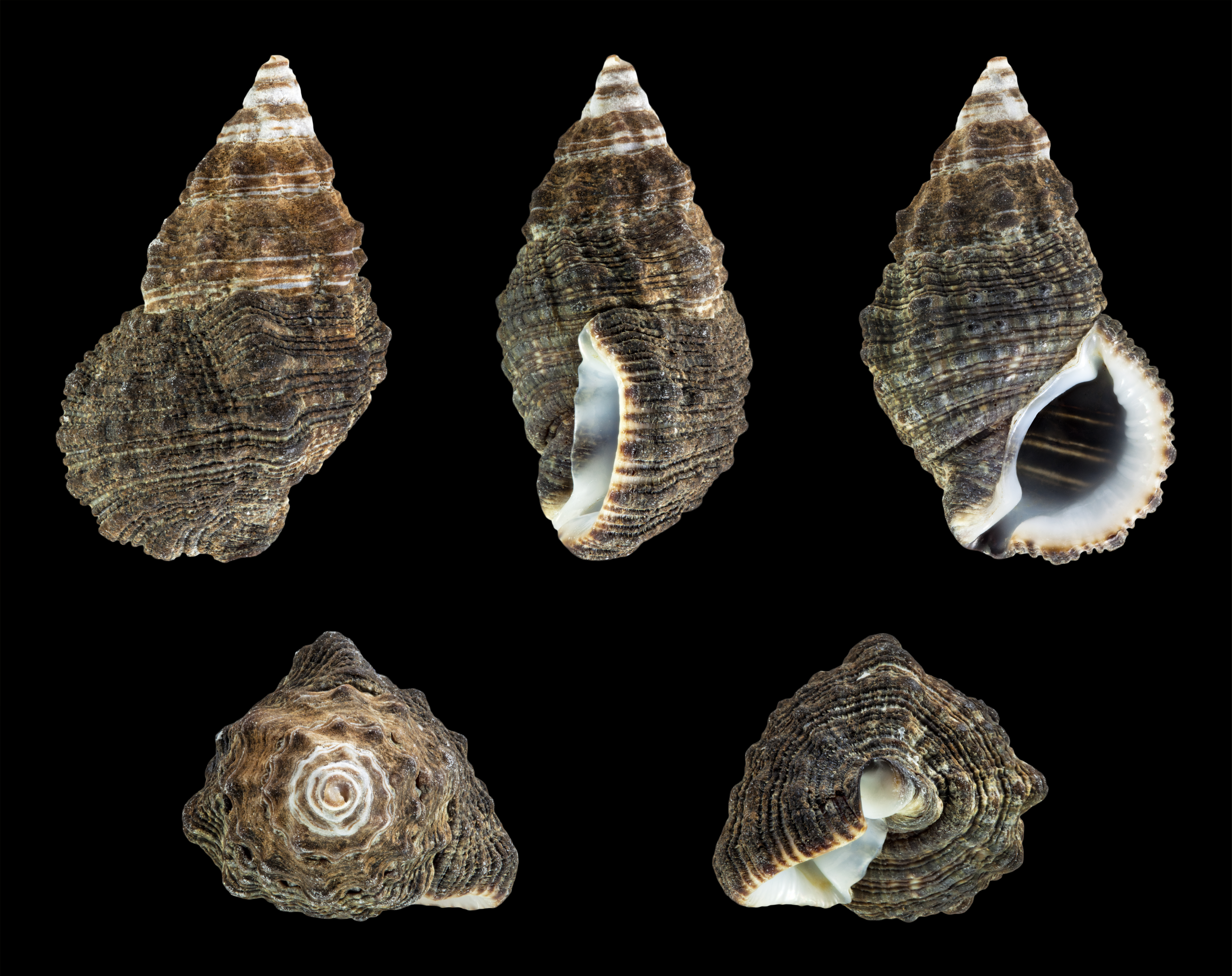 Clypeomorus subbrevicula (Oostingh, 1925); Length 2.1 cm; Originating from the Situbondo Regency, East Java, Indonesia; Shell of own collection, therefore not geocoded.